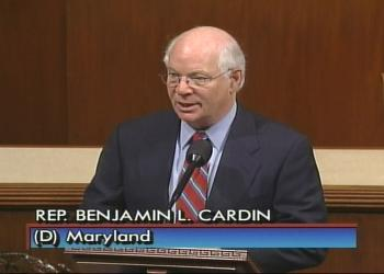 On the floor of the House, Rep. Ben Cardin calls for a change of course in Iraq -- one that includes bringing U.S. combat troops home. The Congressman has called for beginning the process of removing combat troops this year, with the expectation that all U.S. combat troops will be home by the end of 2007. "We need to send a message to Iraq that we will not be there indefinitely," he said.